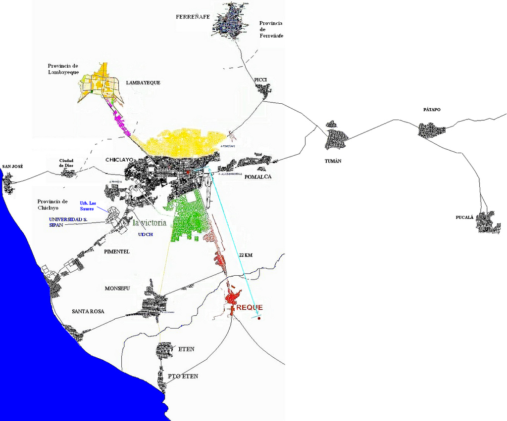 According to THE PROJECT DIRECTOR METROPOLITAN "CHICLAYO 2020" , will contemplate Chiclayo in future eight districts, which nowadays are the six of the central nucleus and two of the integrated discontinuous area of expansion of Chiclayo's city: 1.-The districts the City (Central Nucleus) at present: Chiclayo, Jose Leonardo Ortiz, The Victory, Pomalca, Pimentel, and Reque. Population urban = 546 054 Inhabitants. 2.-The districts , the Integrated discontinuous Area: San José (in Lambayeque) and Picsi. At present Chiclayo's city has a light trend and urban development projection of urban expansion to these two districts.All these districts were projected in form planned to 2020 for a future integration. 3.- Chiclayo a spatial urban area of has 30 km : Lambayeque, Ferreñafe, Monsefú , Picci, San José, Tumán, pucalá, Pátapo, Eten , Port Eten , Mochumi, Pítipo, Zaña, Cayaltí. Area metro population 910,255 Inhabitants